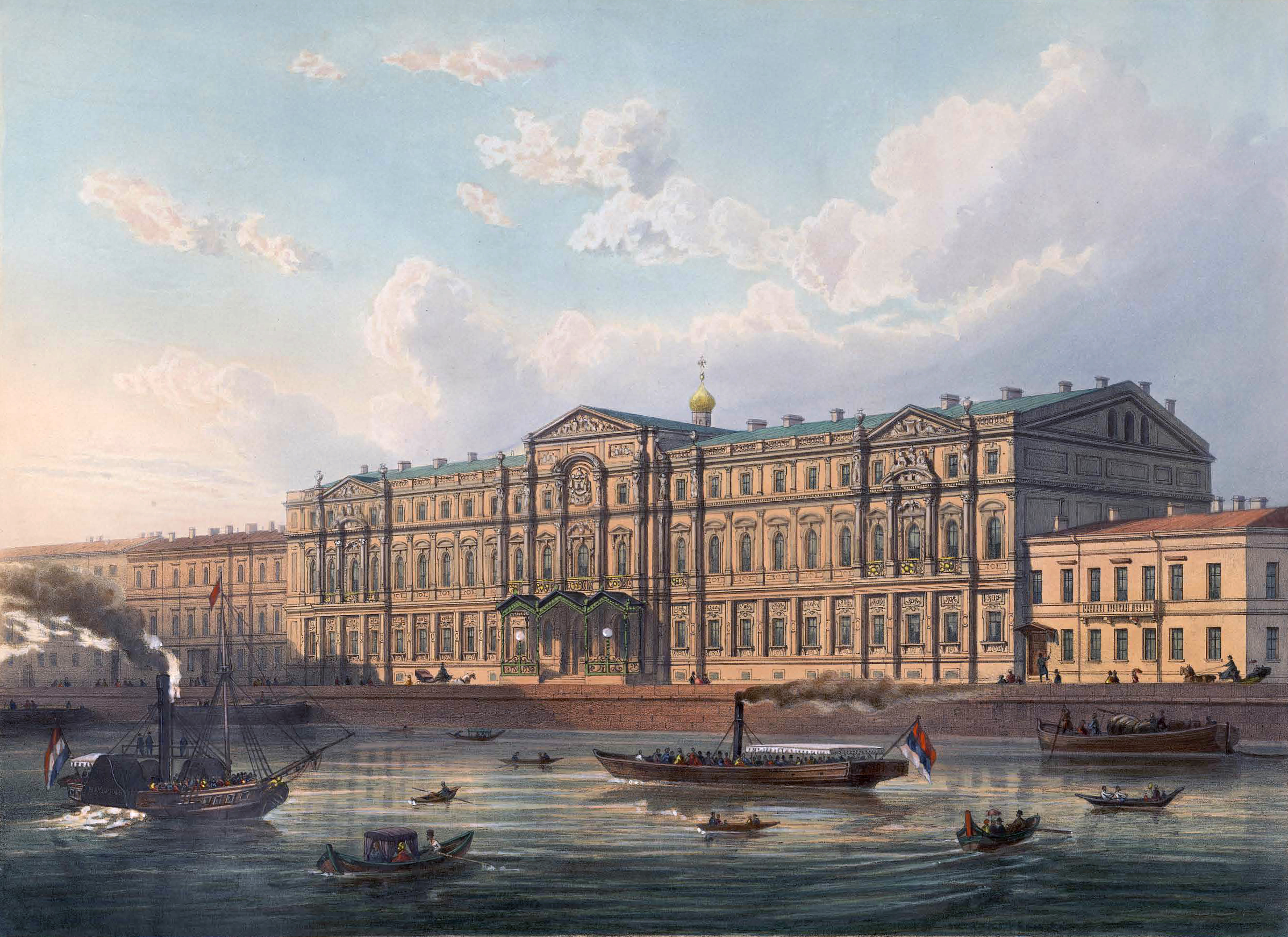 Novo-Mikhailovsky Palace in St. Petersburg in the 19th century lithograph after a drawing by Charlemagne